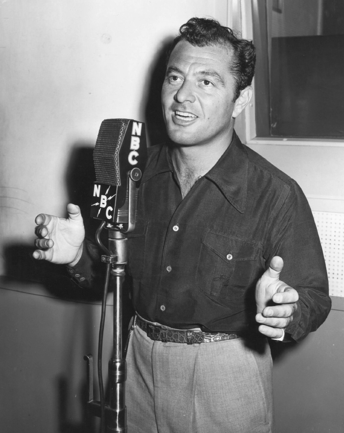 Photo of Tony Martin. Martin became the host of a weekly musical/interview radio program for RCA Victor recording artists on NBC Radio in 1953.